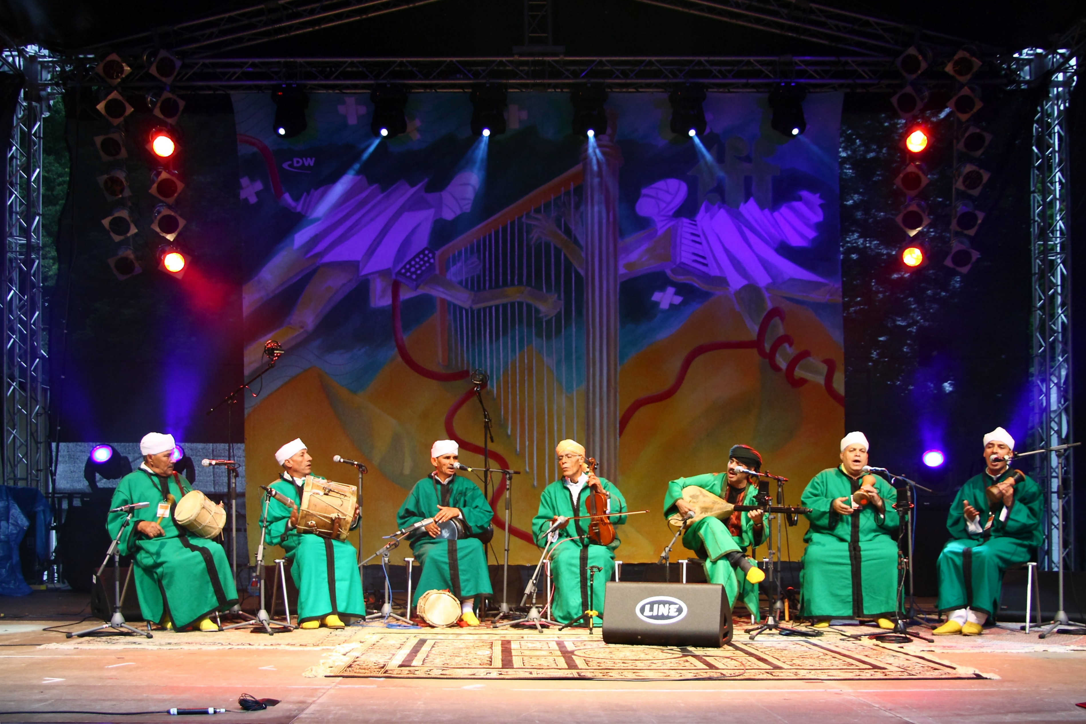 The Master Musicians of Jajouka led by Bachir Attar (3rd f.t.r.) at TFF Rudolstadt 2011.